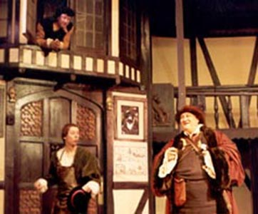 A scene from Ben Jonson’s The Alchemist at R. Thad Taylor’s Globe Playhouse